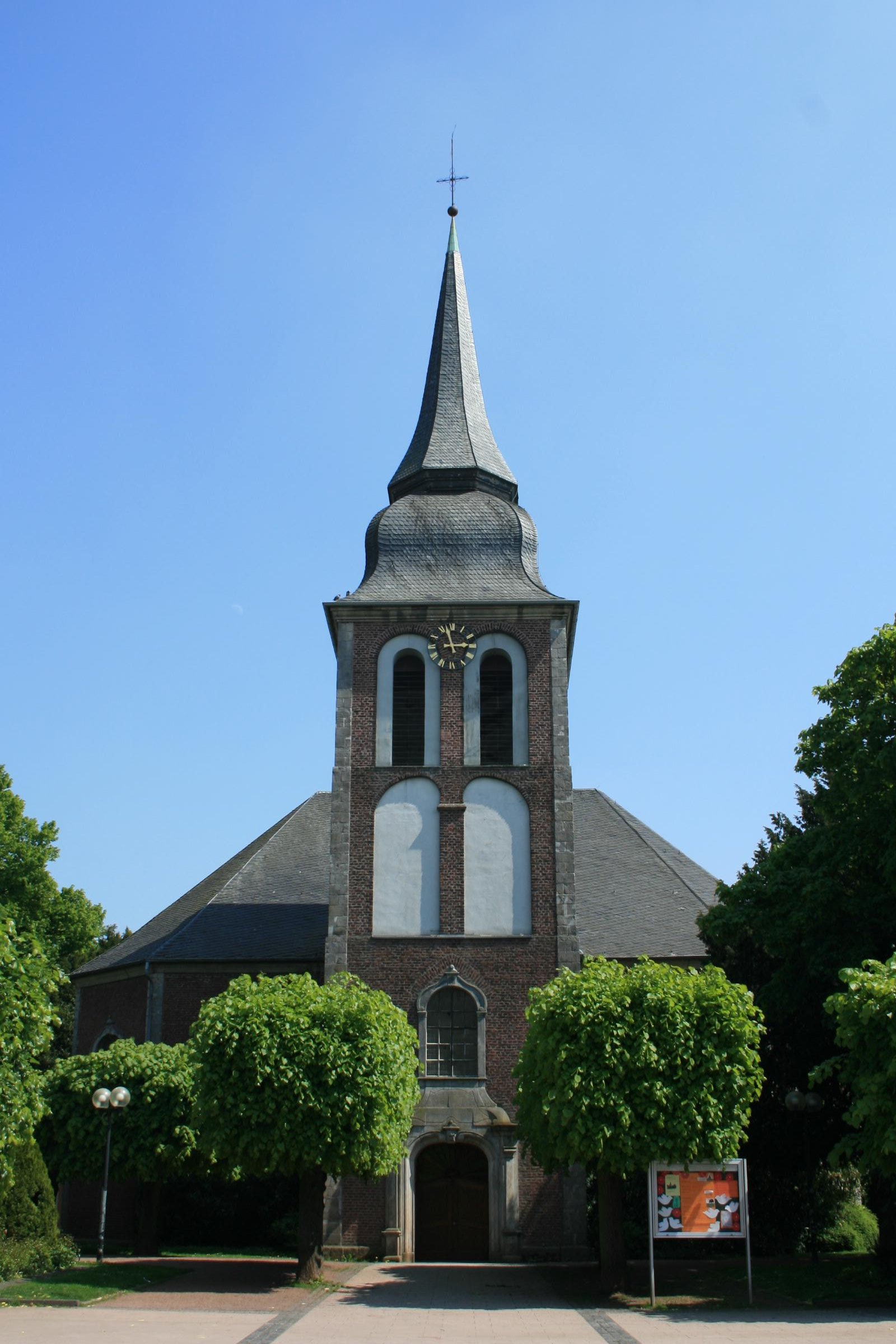 Cultural heritage monument No. B 035 in Mönchengladbach